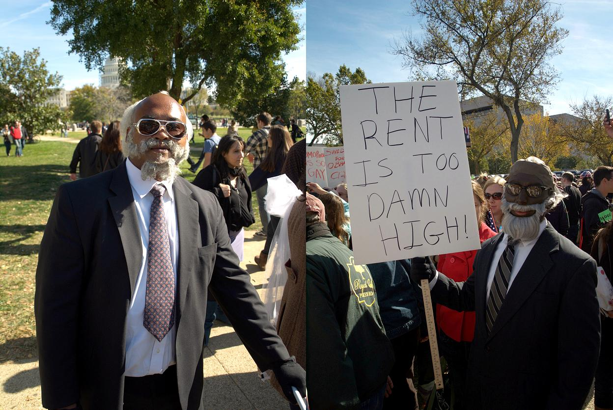 Photographs of the Rally to Restore Sanity and/or Fear.